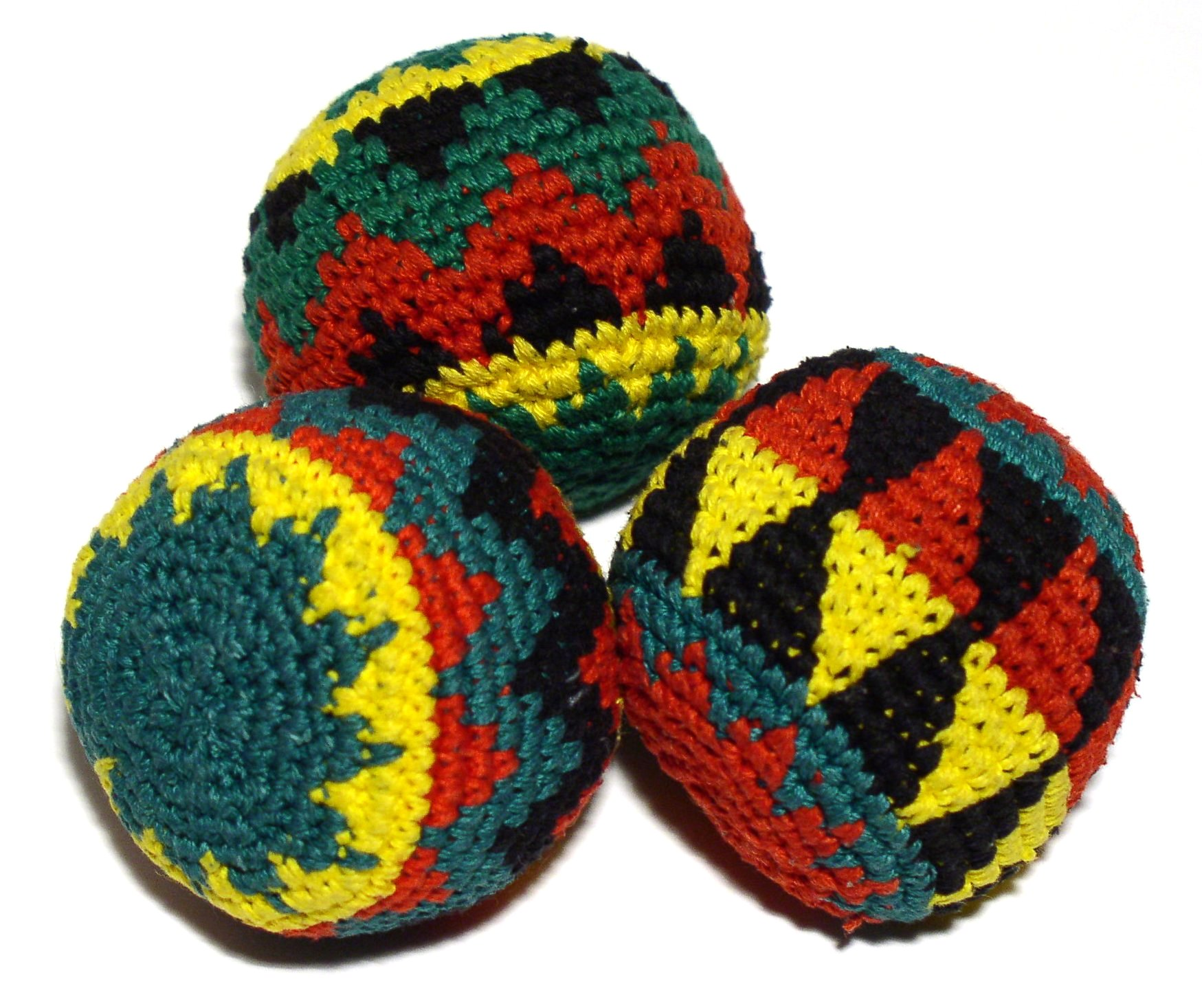 Description: Beanbags (Juggling) Source: photo taken by me Photographer: Baikonur